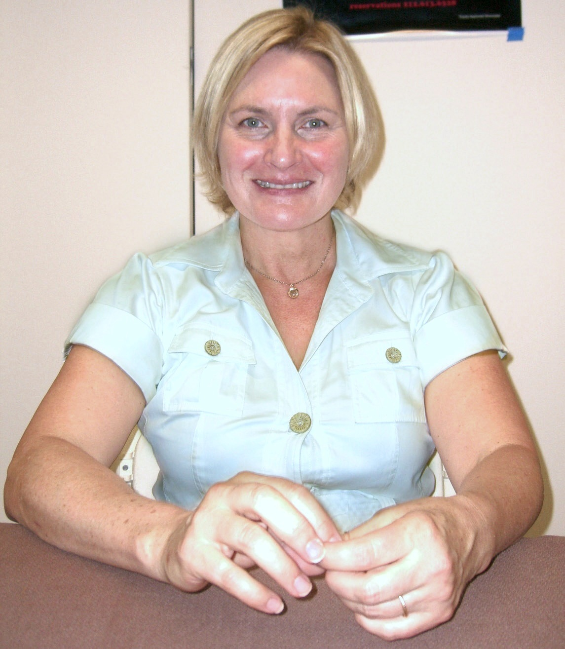 Actress Denise Crosby at the Big Apple Convention in Manhattan, June 8, 2008.